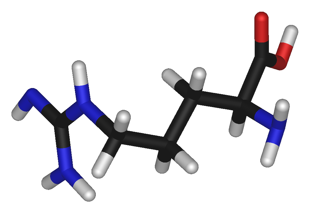 L-arginine 3-D sticks; rotated view of work by User:Benjah-bmm27